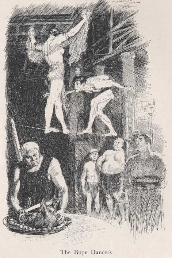 Illustration by Norman Lindsay for Petronius Arbiter's Satyricon